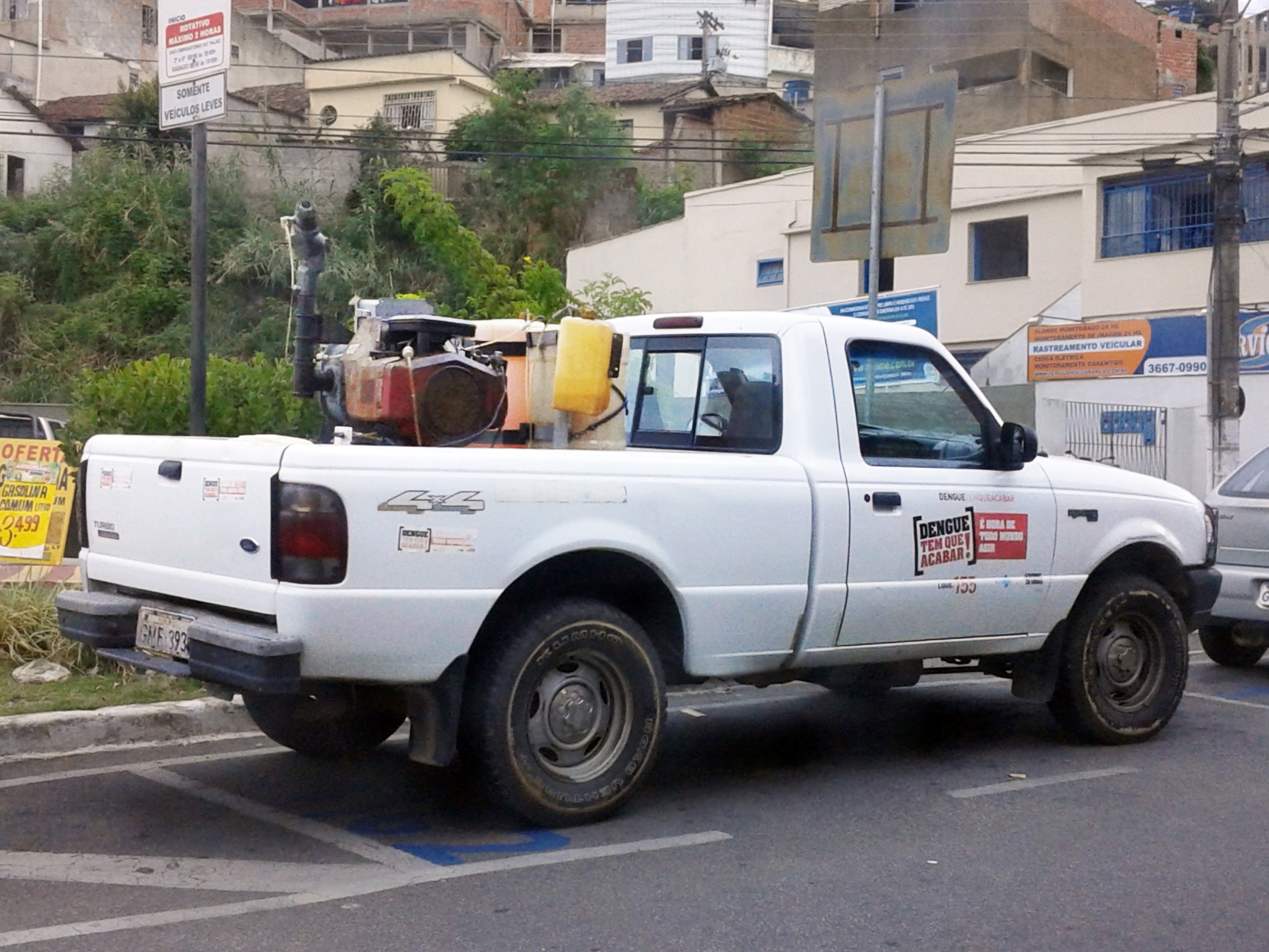 The fogging truck of the state government against the Aedes aegypti mosquito during a dengue outbreak in Coronel Fabriciano, Minas Gerais, Brazil.